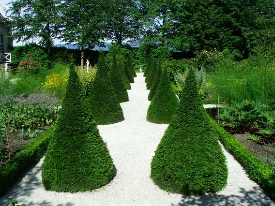 The gentleman's garden, Damsgård hovedgård, Bergen, Norway.